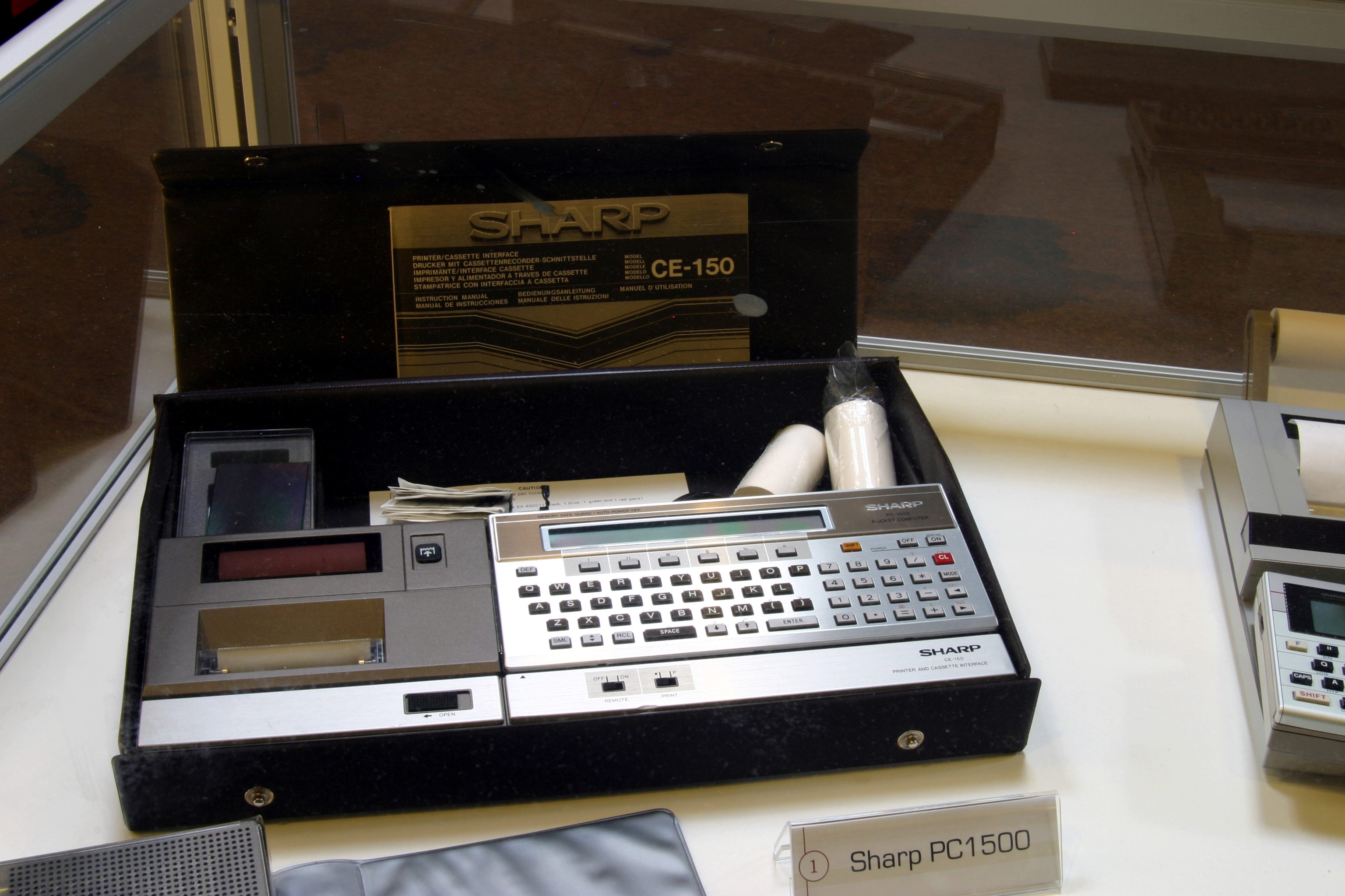 Sharp PC-1500 computer with CE-150 interface. On display at the Musée Bolo, EPFL, Lausanne.